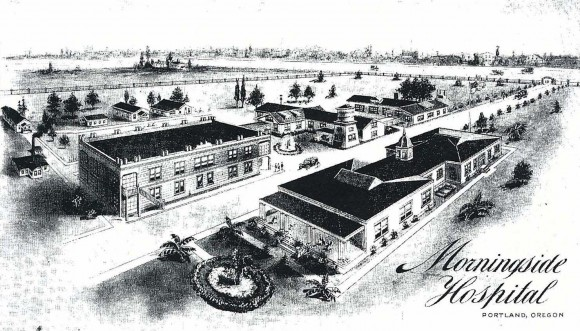 Morningside Sanitatium, Portland Oregon, about 1925